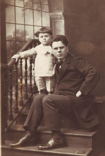 Stasys Šimkus with son Algis in the United States